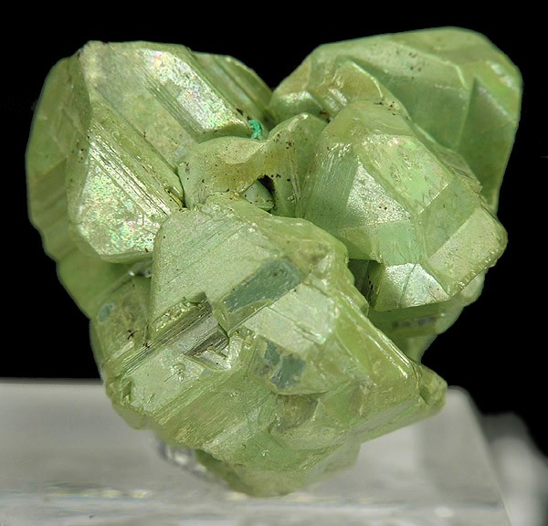 Kësterite, Mushistonite Locality: Mt Xuebaoding, Pingwu County, Mianyang Prefecture, Sichuan Province, China (Locality at ) Size: 1.4 x 1.3 x 1.3 cm. This is a fine specimen where the Kesterite is coated with elegant green Mushistonite. The underlain Kesterite is actually a black metallic color, and is totally enveloped by the layer of Mushistonite. There appears to be a tiny spot of Malachite on the specimen as well.